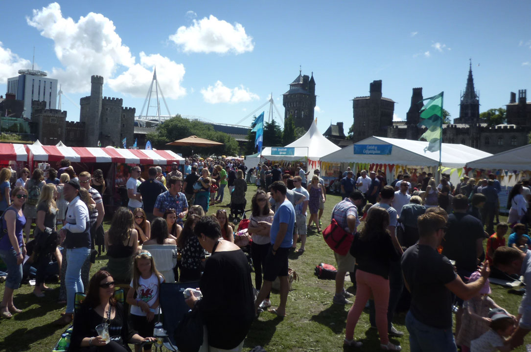 The 2016 "Tafwyl" Welsh-language festival taking place in Cardiff Castle